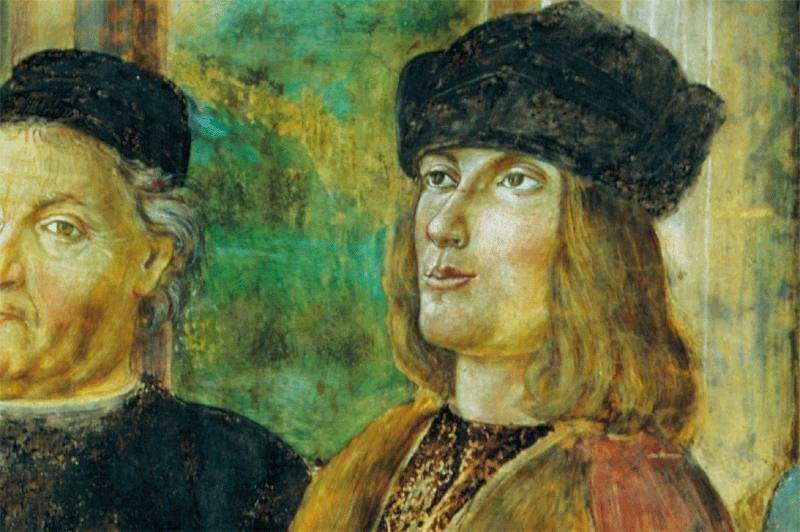 Aldus Manutius with at his side the Prince of Carpi Alberto III Pio detail